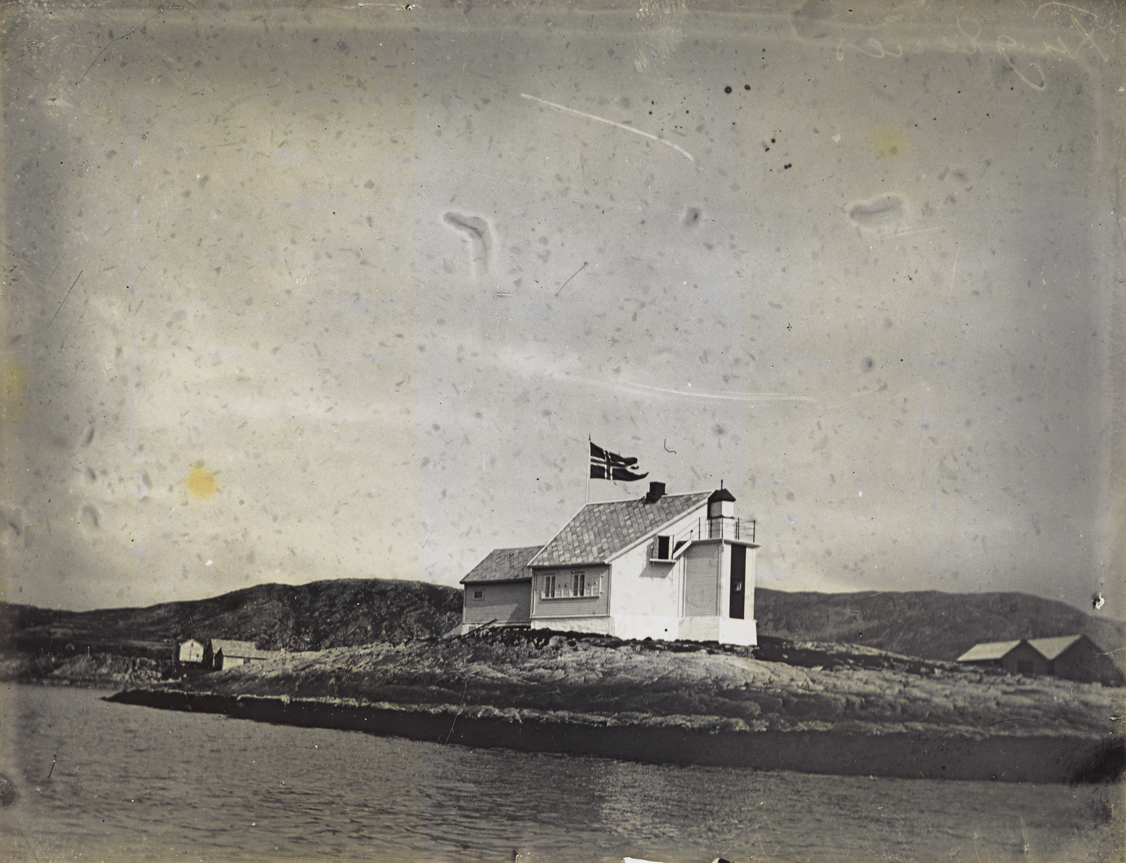 Fuglenes lighthouse, Hammerfest kommune, Finnmark.